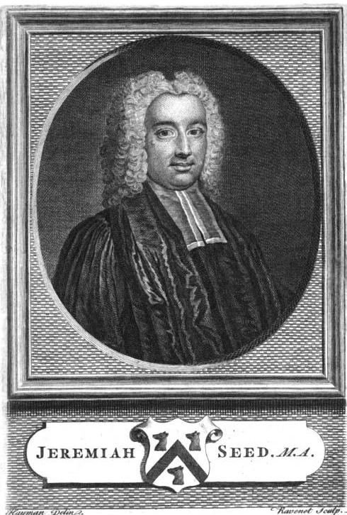 Portrait of Jeremiah Seed (1700–1747), English clergyman and academic.